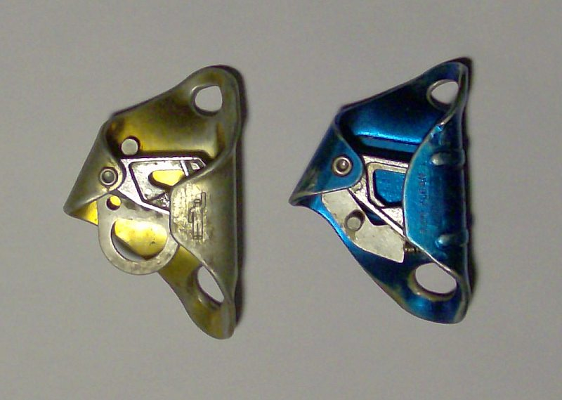 Ventral ascenders (caving). Left: "Croll" by Petzl; right: "Cam Clean" by Kong